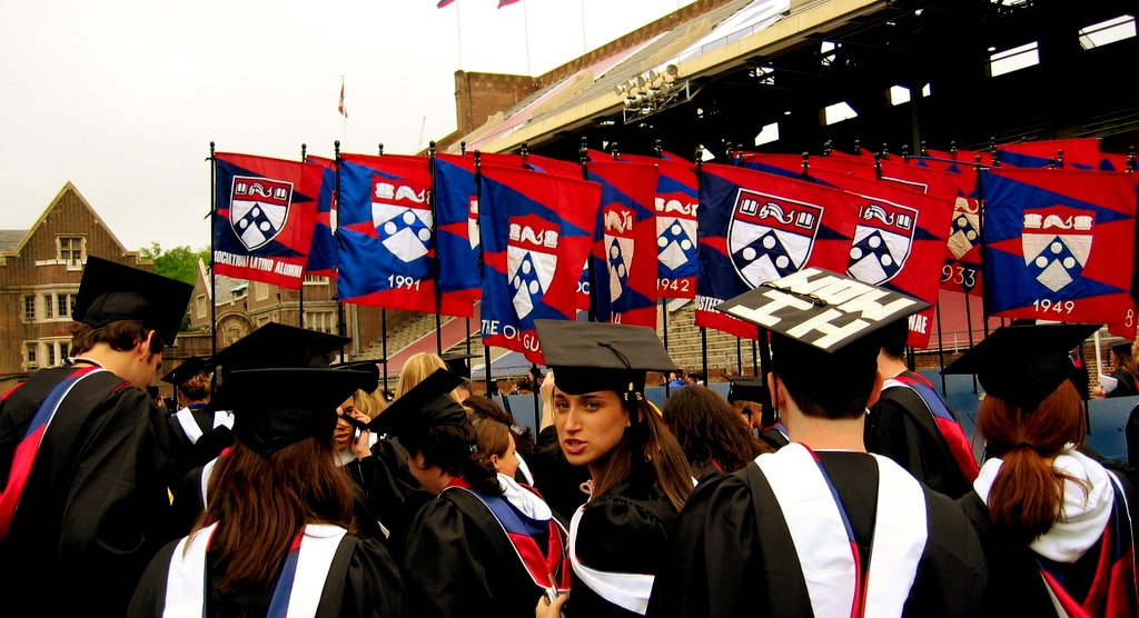 250th UPenn Graduation